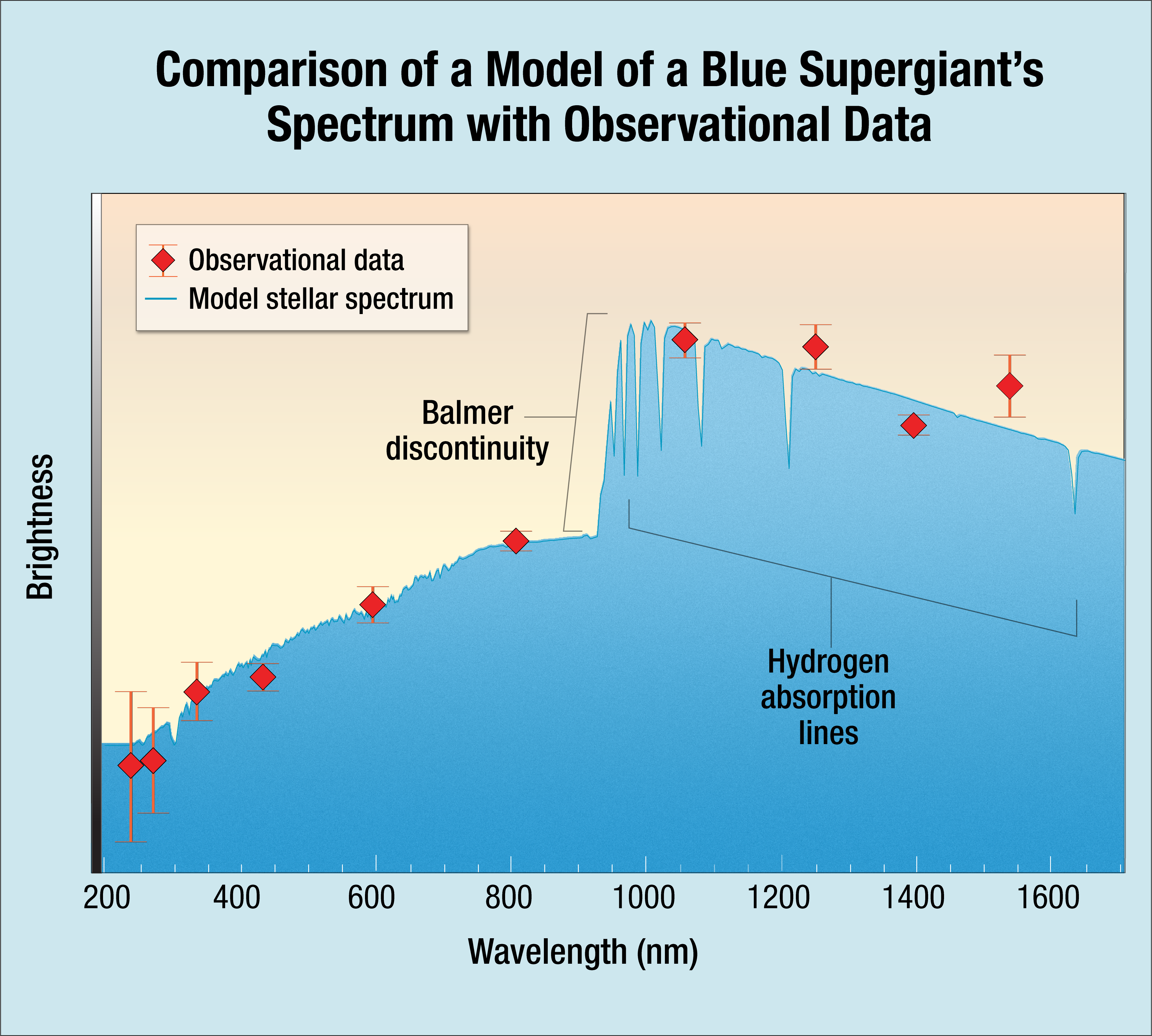 Comparison of Icarus Spectrum with Model of a Blue Supergiant Star Spectrum Scientists found that the Hubble data from MACS J1149+2223 Lensed Star 1 (Icarus) matches the model for a blue supergiant. The agreement shows a remarkably good fit, and indicates that Icarus is approximately twice as hot as the Sun. The solid blue line shows the model spectrum of the blue supergiant, adjusted for the distance to the host galaxy of the highly magnified star. The red diamonds are the actual data measured for Icarus. The observed wavelength of the Balmer discontinuity relative to its intrinsic wavelength (at about 365 nm) is an indicator of the distance to the star. The strength of the Balmer discontinuity depends on the strength of the star's gravity at its surface and its temperature.